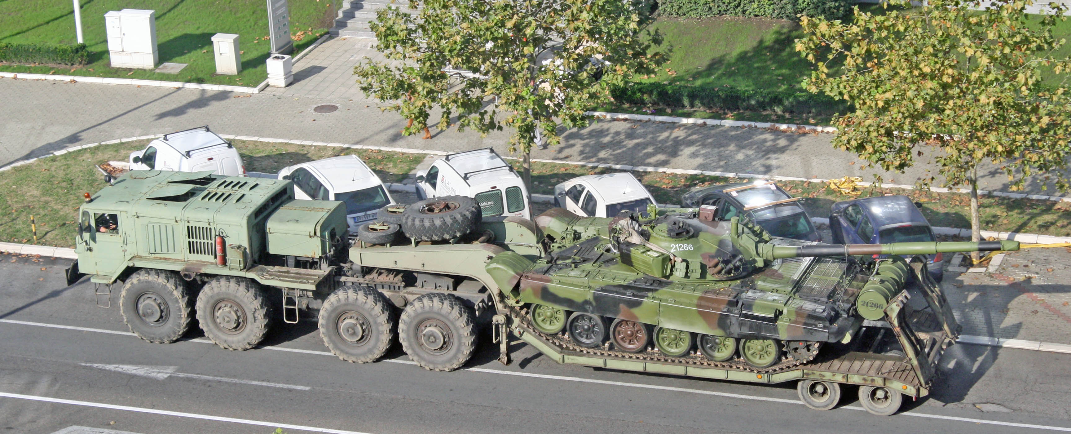 Serbian Army MAZ-537 transporting M-84 main battle tank.